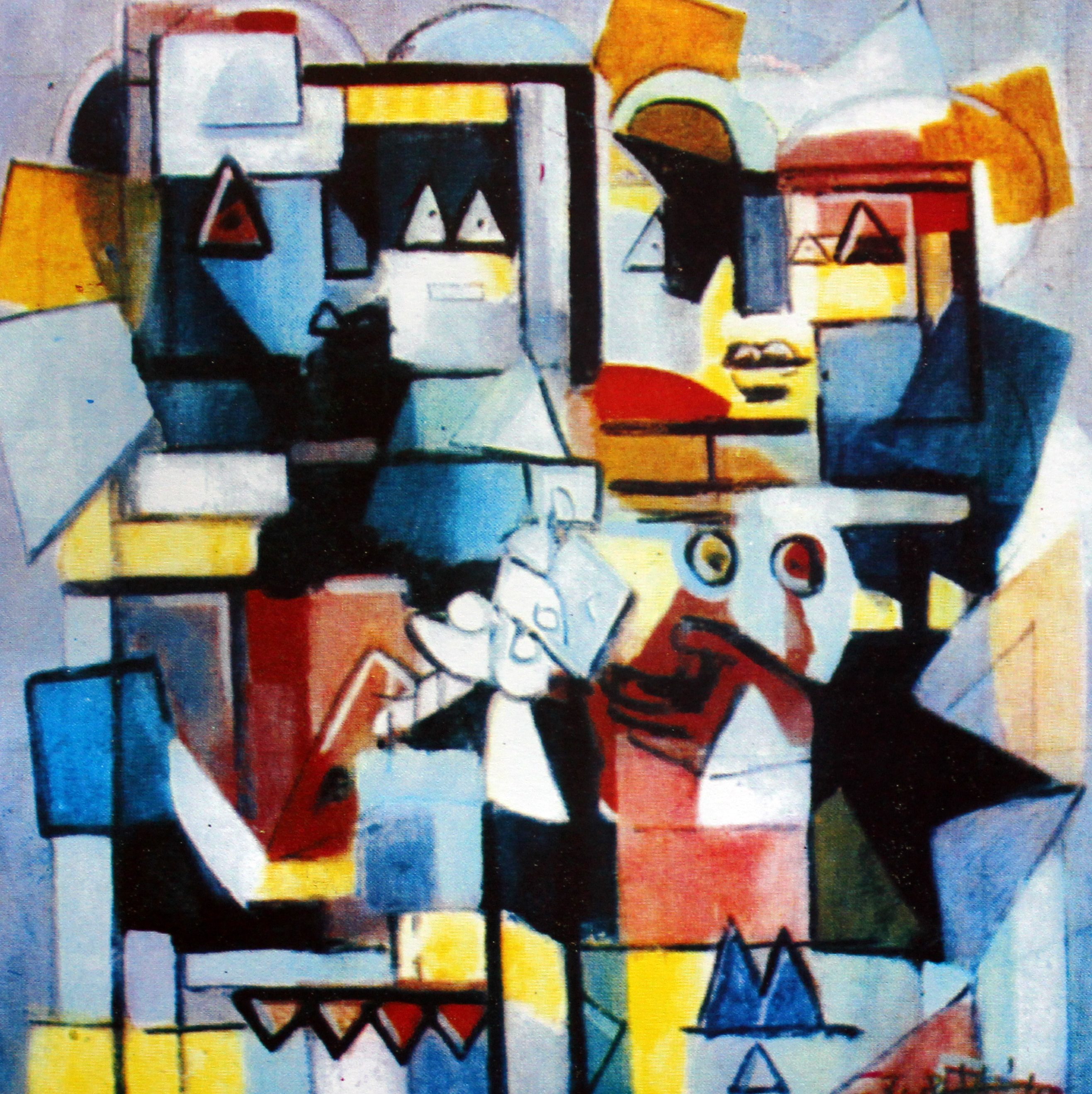 This is under the ownership of Kosova National Art Gallery. We have been given the rights to freely use the data available in its published book, Kosovo Contemporary Art